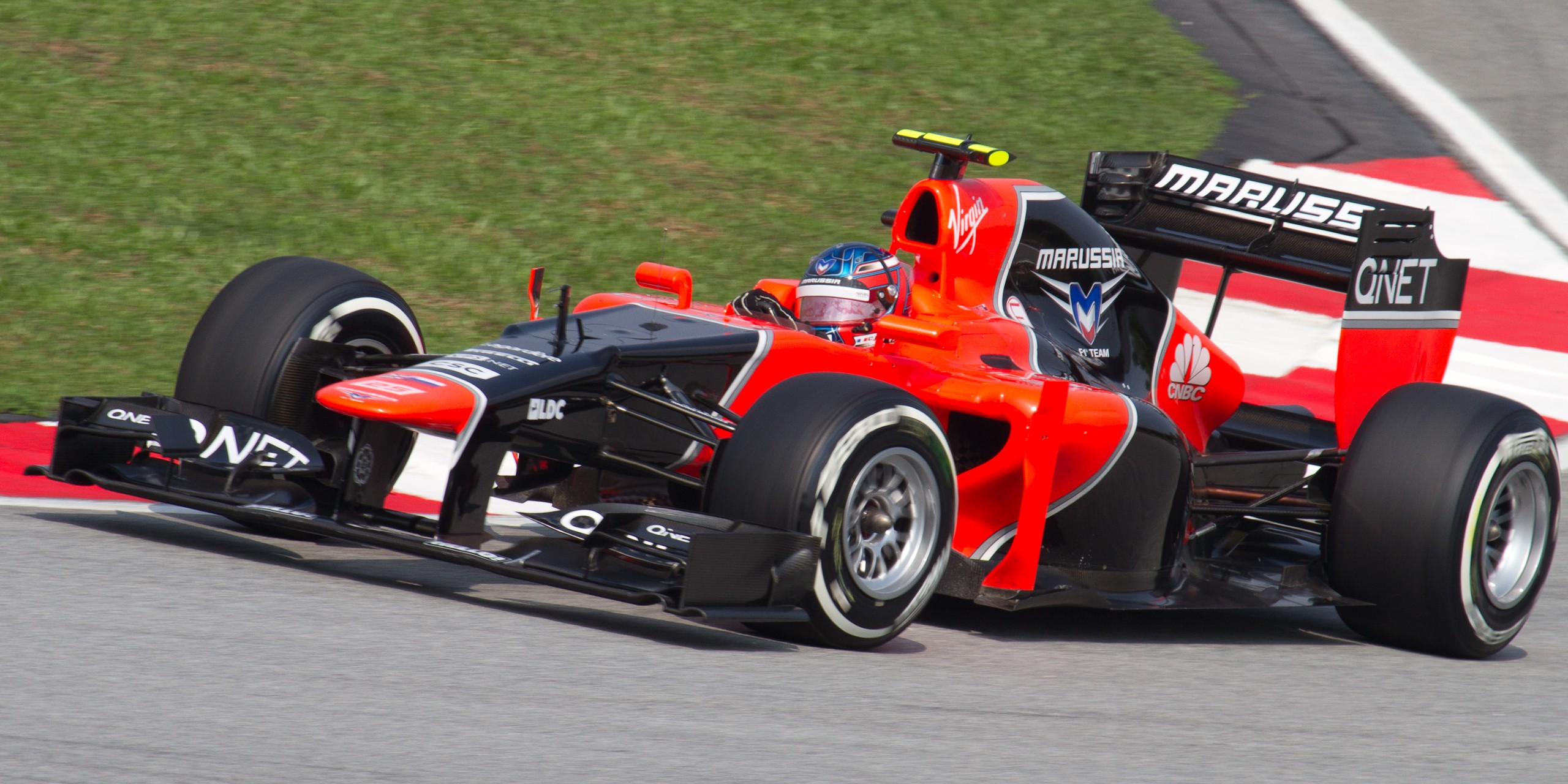 Formula One 2012 Rd.2 Malaysian GP: Charles Pic (Marussia) during the qualify session on Saturday.